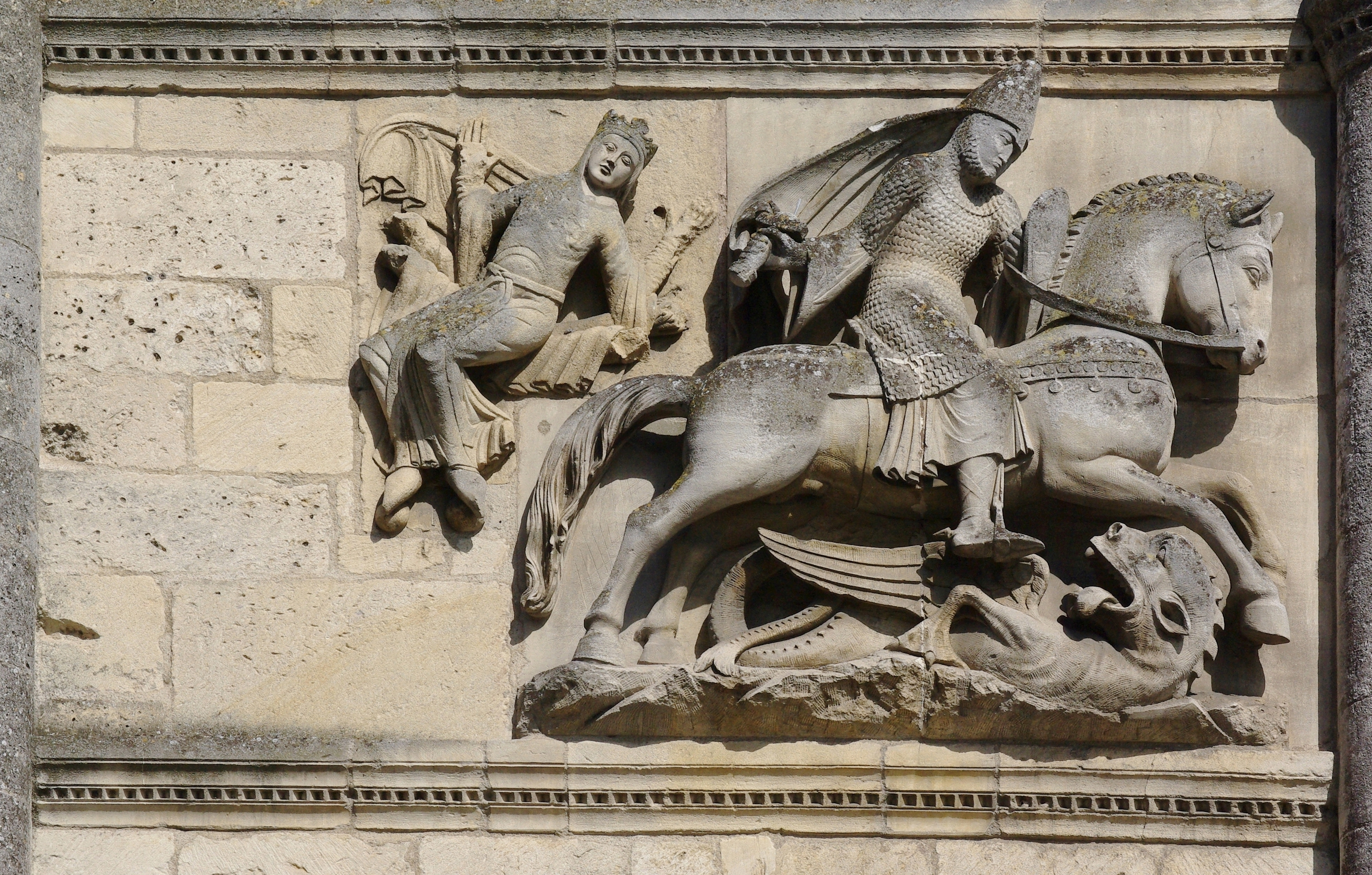 Statue of Saint George killing the Dragon. Façade, Cathédrale Saint-Pierre (XIIth century), Angoulême, Charente, France. The presence of the woman behind the horse is still unexplained.